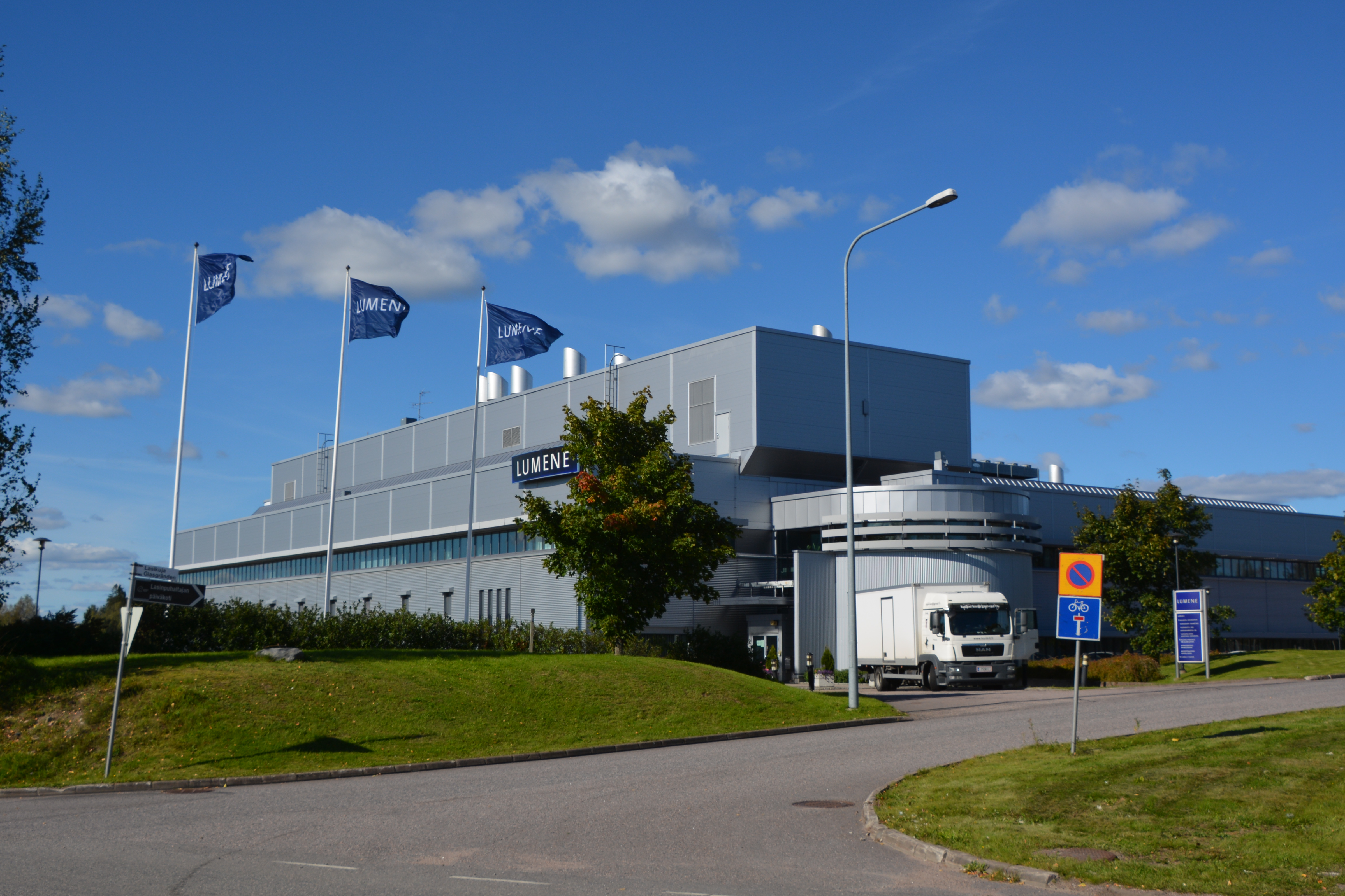 Lumene factory, Kauklahti, Espoo, Finland.